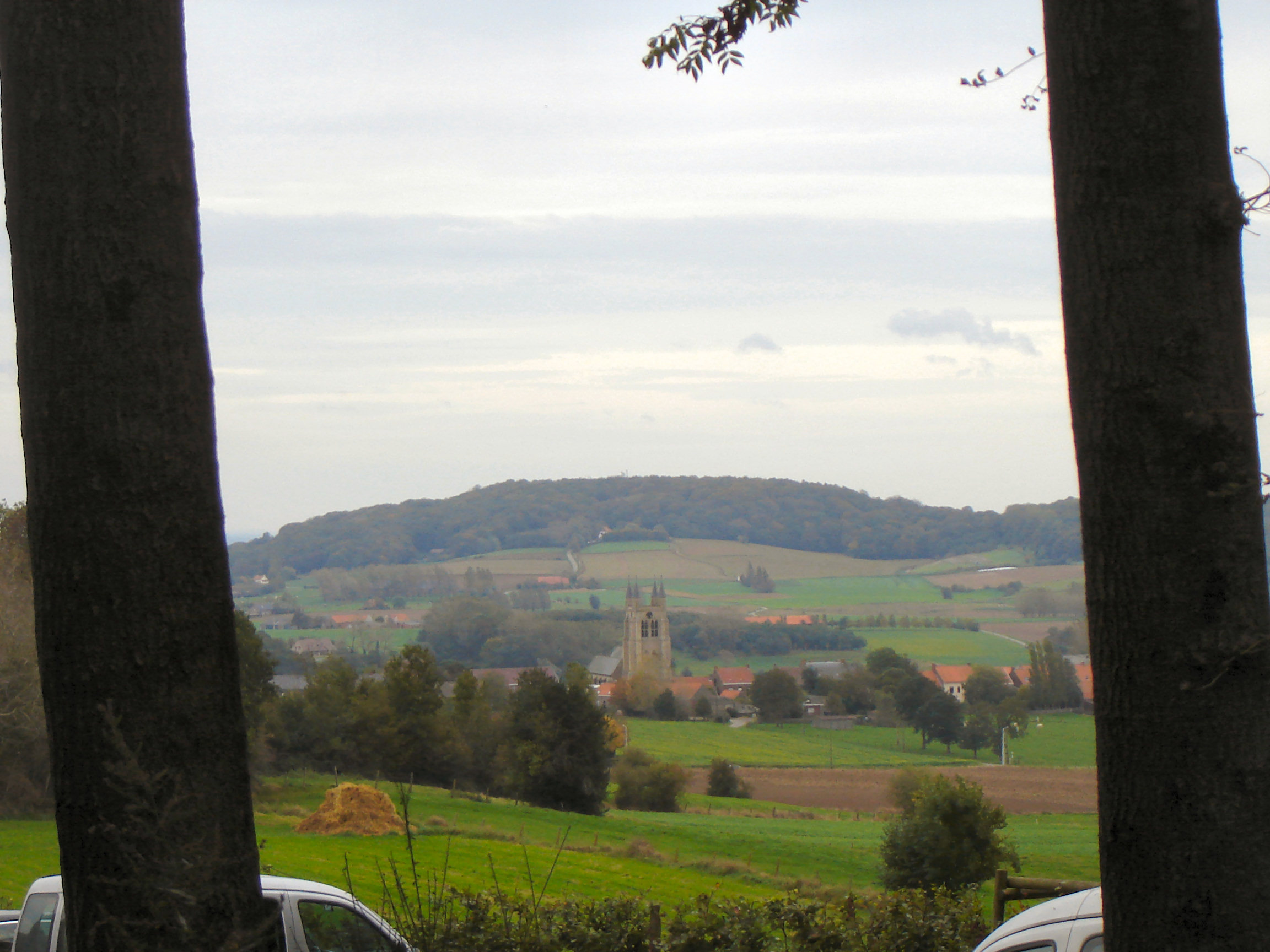 Village of Loker in Heuvelland, West-Flanders, Belgium. As seen from the Rodeberg.